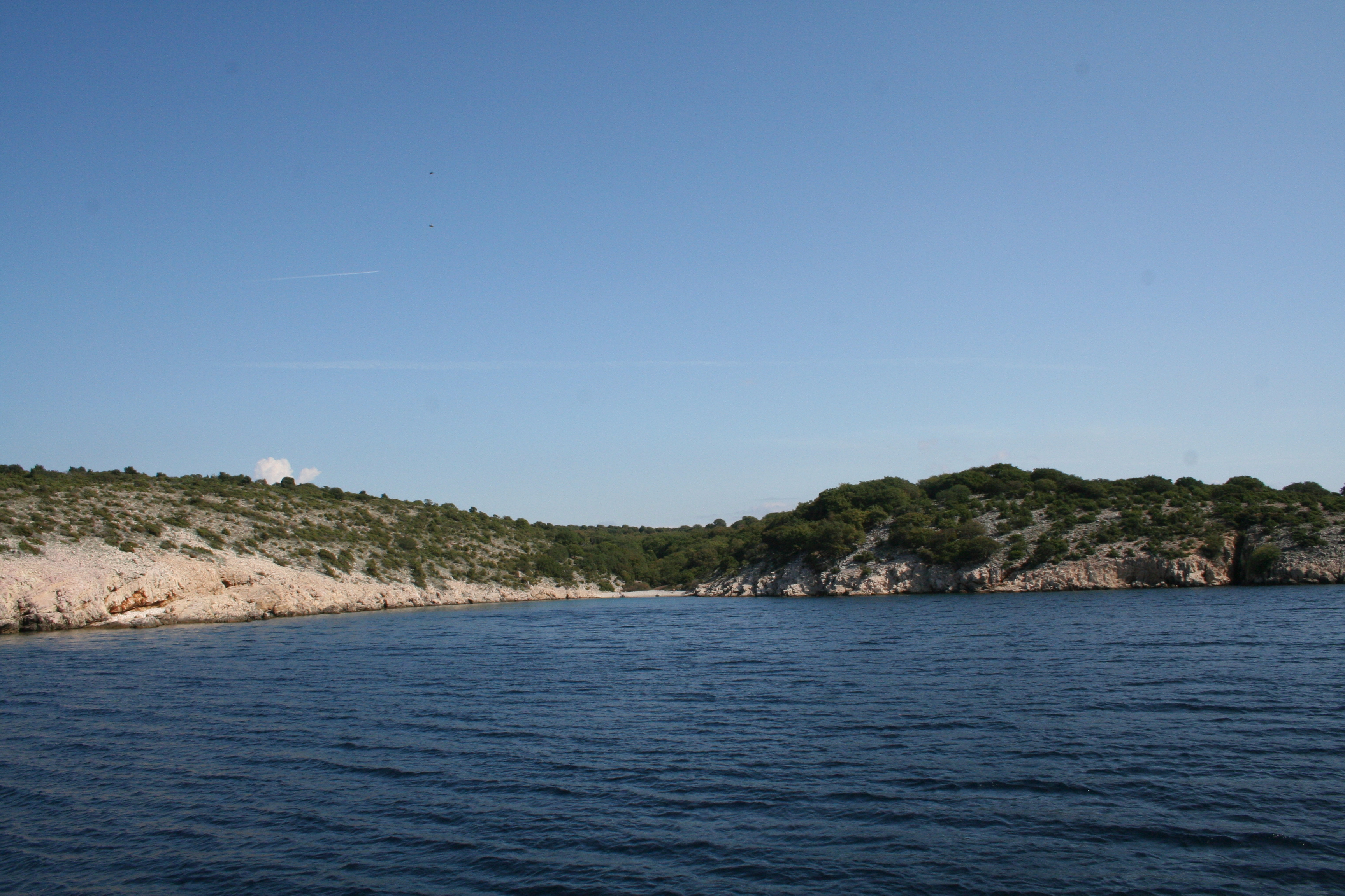 The Island of Plavnik, Croatia